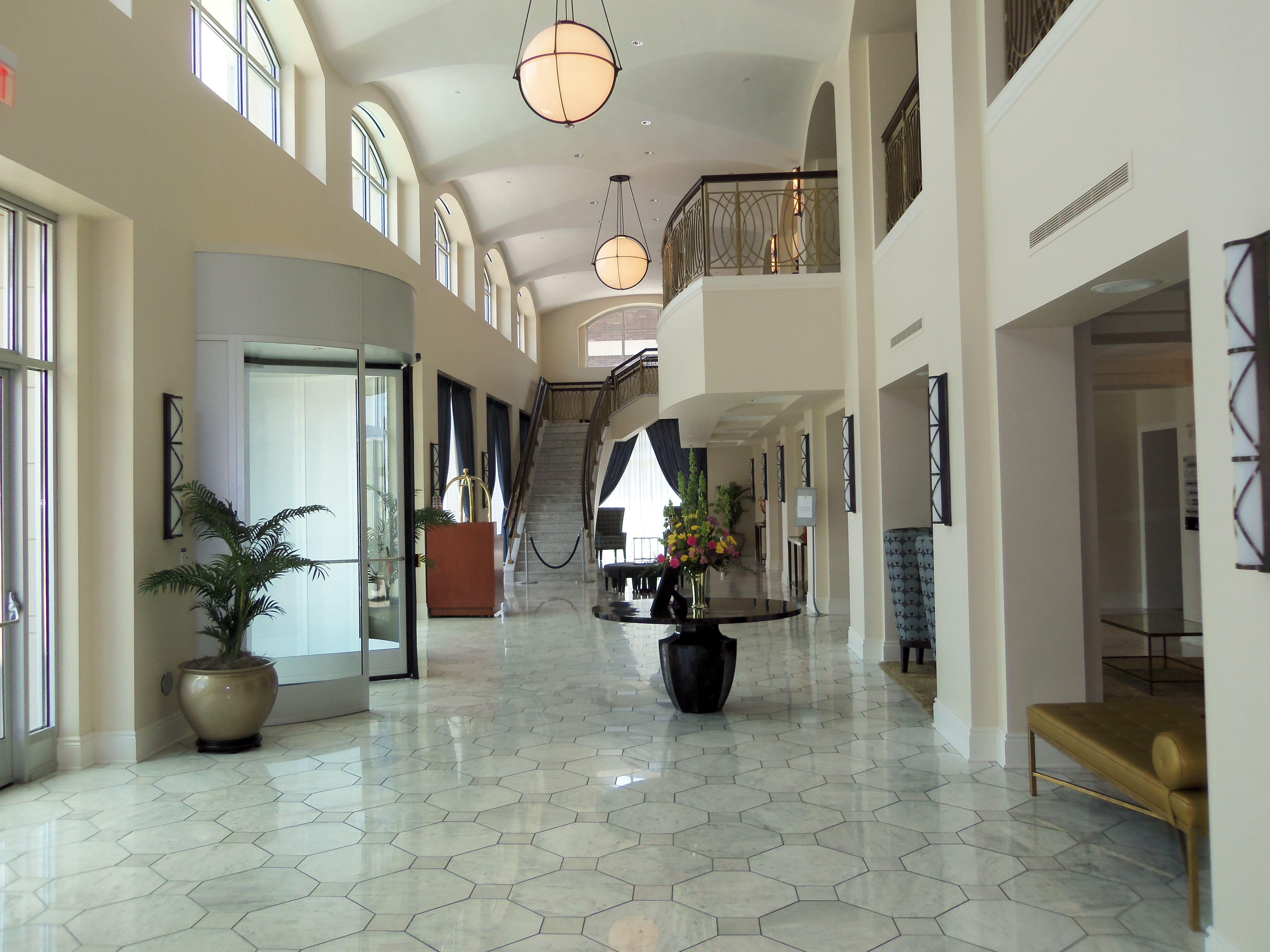 Foyer ofthe Blackhawk Hotel in Davenport, Iowa. The building is listed on the National Register of Historic Places.